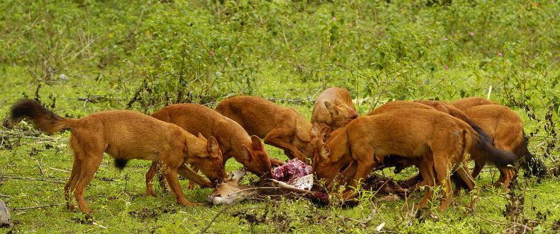 Dholes eating a chital they had just hunted